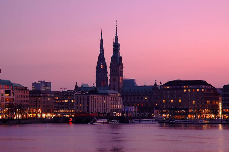 Hamburg, Germany: Lake Binnenalster at dusk with city hall (Hamburger Rathaus) [center]